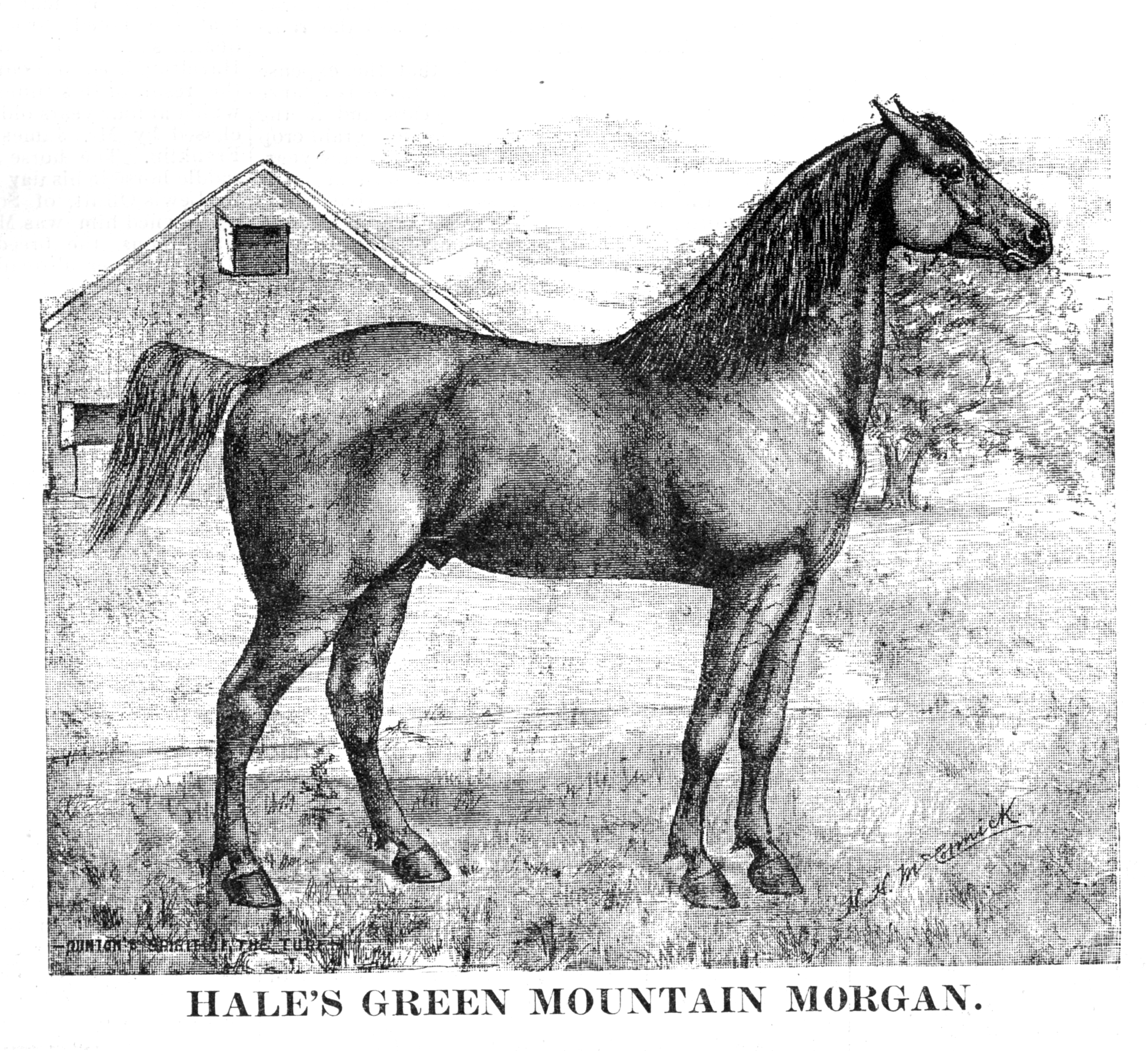 The American Morgan horse Hale's Green Mountain Morgan from Dunton's Spirit of the Turf September 15, 1888 issue